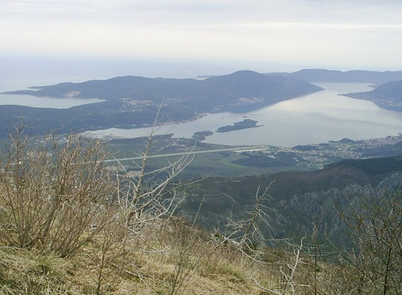 Lovćen mountain, Montenegro